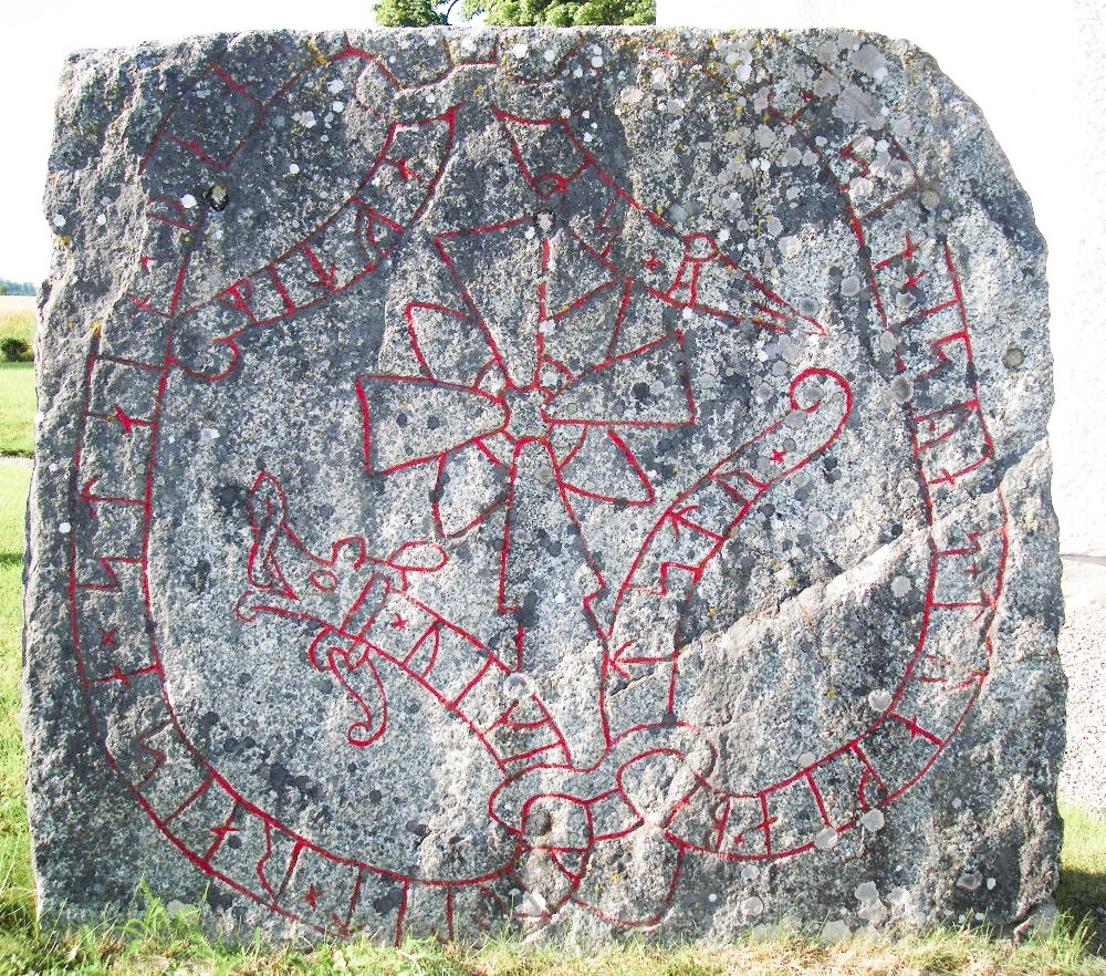 runic stone Upplands runinskrifter U802